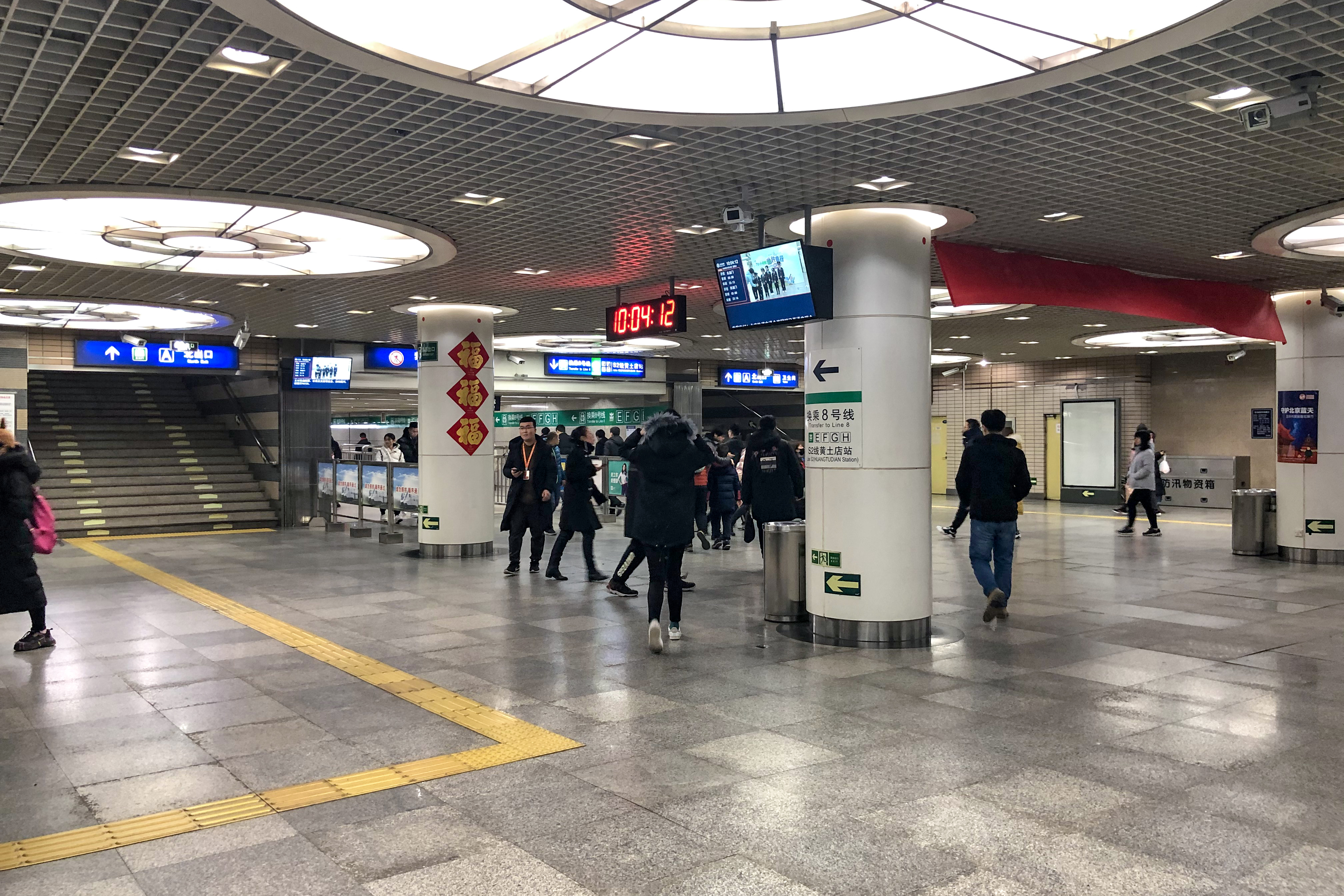 18 years...